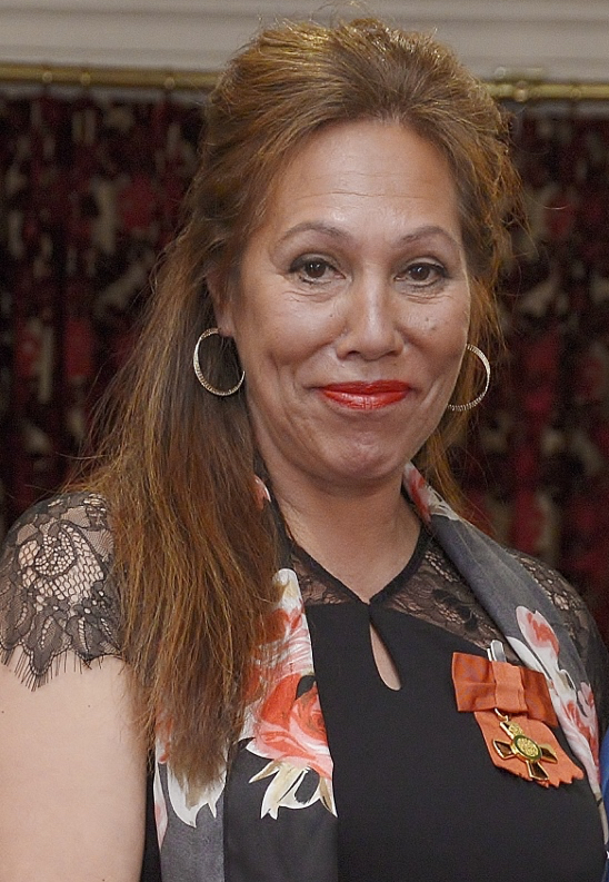 Nina Nawalowalo, after her investiture as ONZM, for services to theatre and Pacific culture, on 25 September 2018